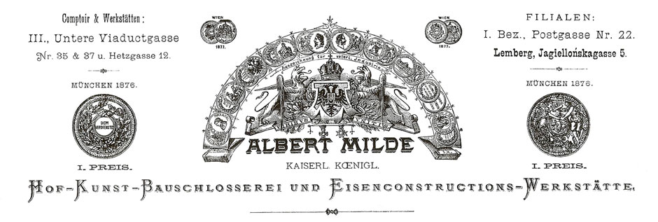 Letterhead by Albert Milde, Kaiserl. Koenigl. Hof-Kunst-Bauschlosserei und Eisenconstructions-Werkstätte in Vienna.